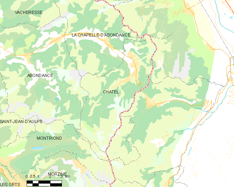 Map of French municipality Châtel